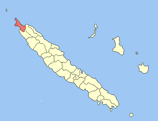 Created map myself.